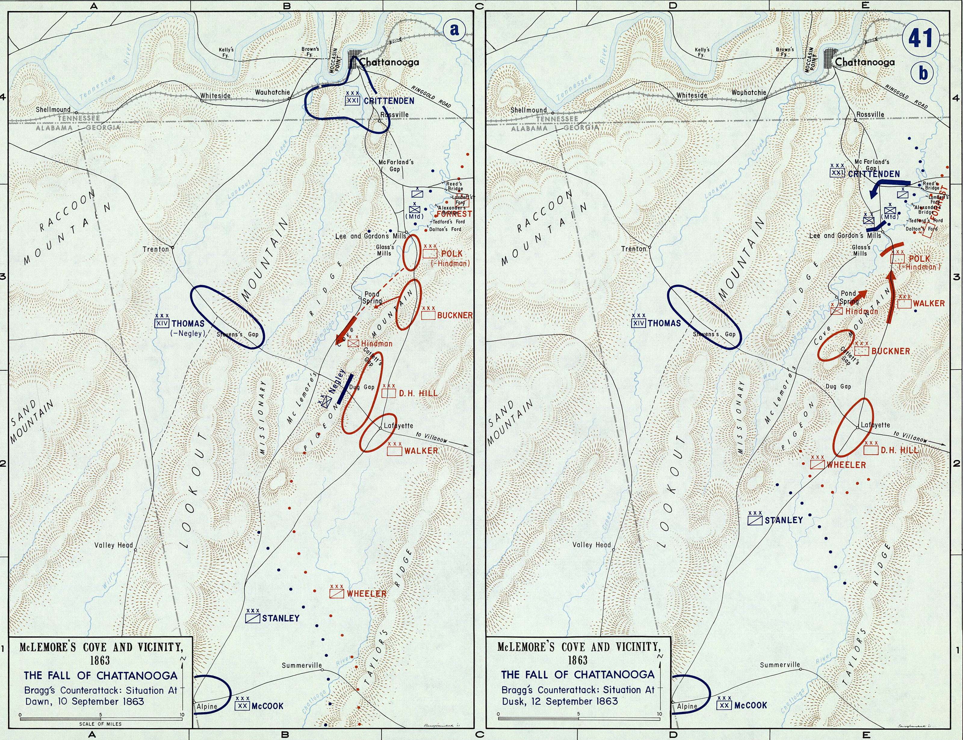 Western Theater: movements 10-12 September 1863 (Chickamauga Campaign).